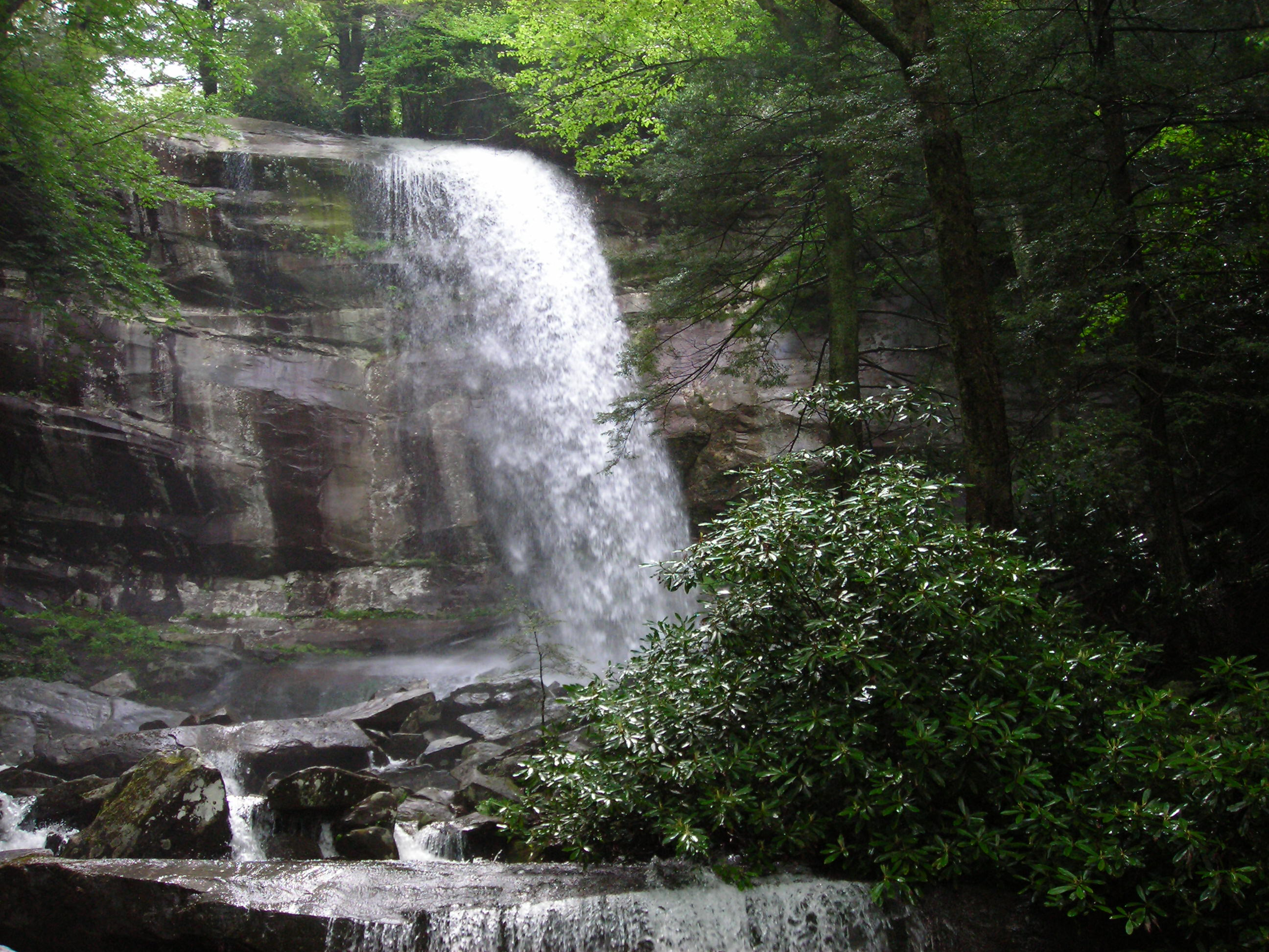 Rainbow Falls, an 80 foot plunge of Le Conte Creek, is the highest single waterfall in the Great Smoky Mountains National Park. Photo taken by myself, Scott Basford, on June 3, 2006.